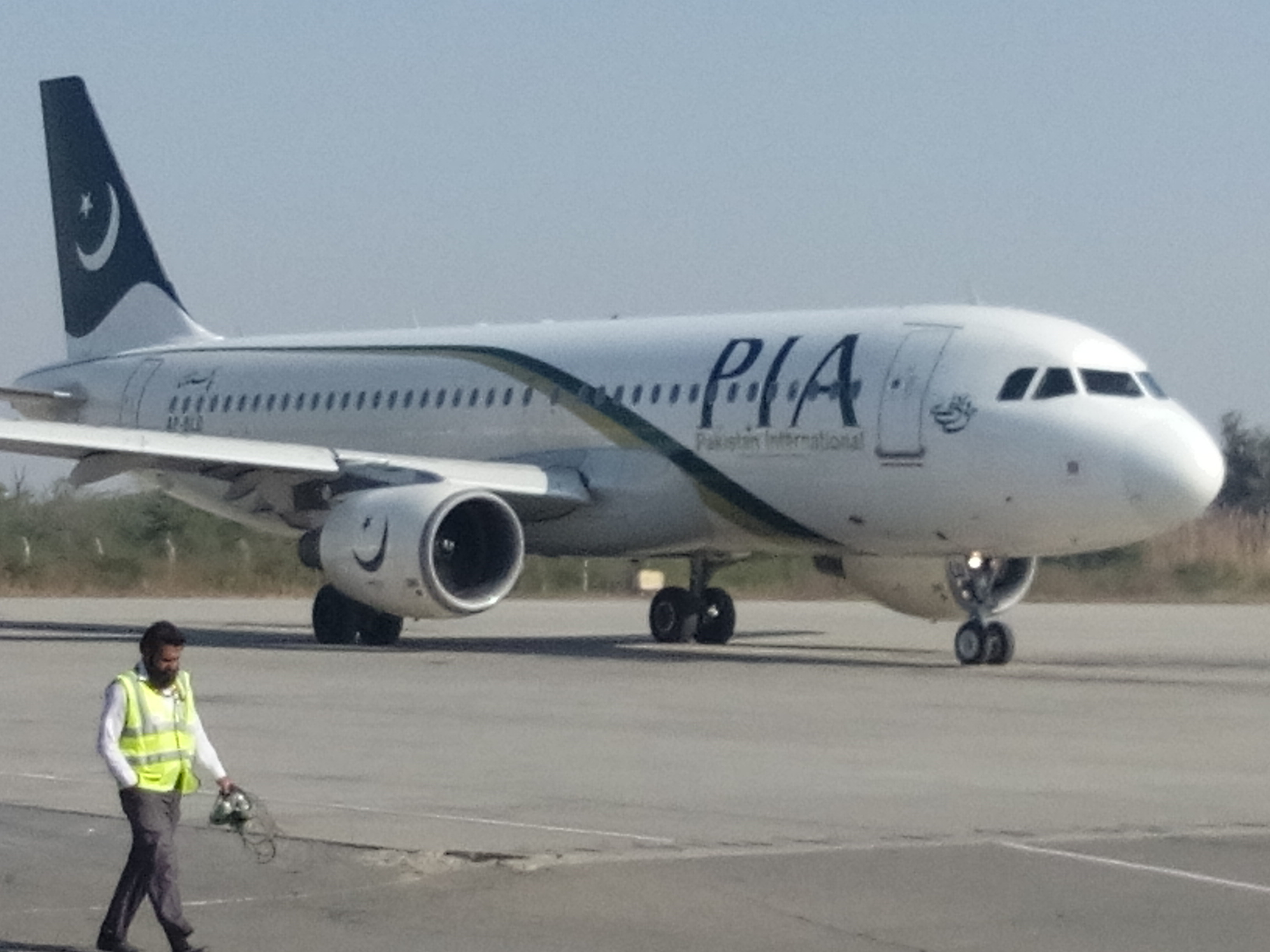 Airline Pakistan International Airlines Status : Active Registration : AP-BLD Airport: Faisalabad International Airport Airport Code: LYP/OPFA Comments: Flight arrived from Karachi (Domestic operations)